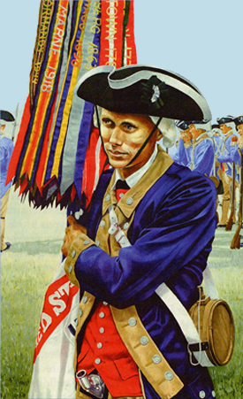 Ilustration of the Army Flag with full Battle Steamers attached.